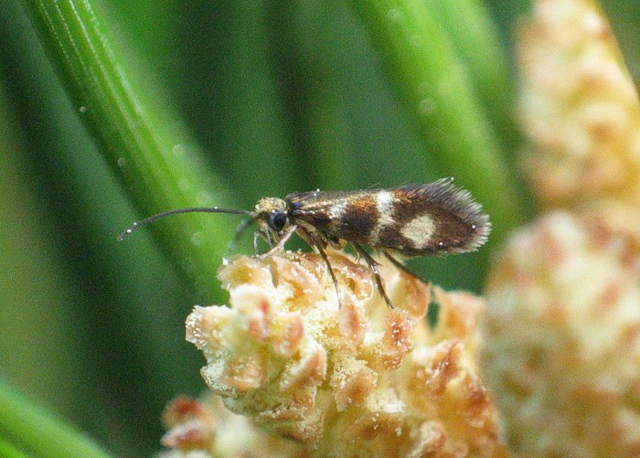 The animals frequently feed on the pollen of Pinus mugo Turra: Vorarlberg, Rätikon, Lünersee, Douglashütte Umgebung, 2000 m, 2004.07.30 info (in german)